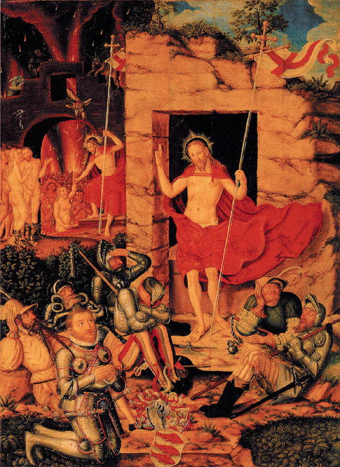 Augustin Cranch: The Resurrection (Epitaph Seydlitz); Oil on Canvas, about 130 x 100 cm